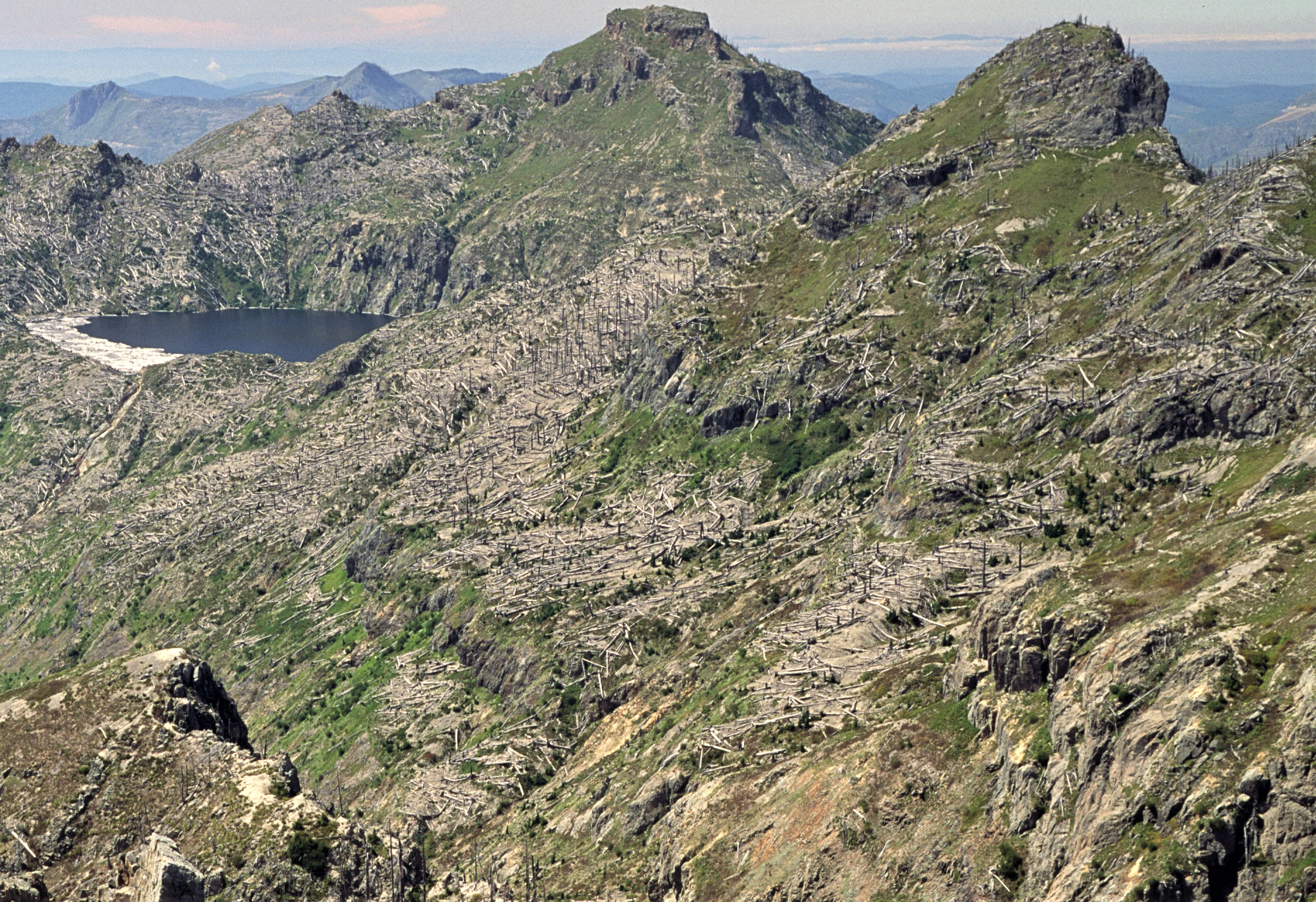 St. Helens Lake, Coldwater Peak centered, The Dome (upper right), from northeast near Mt. Margaret